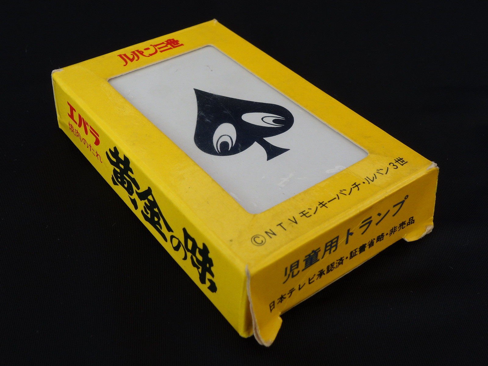 "Lupin the Third" Playing card for children (Not for sale, tax free in Japan)